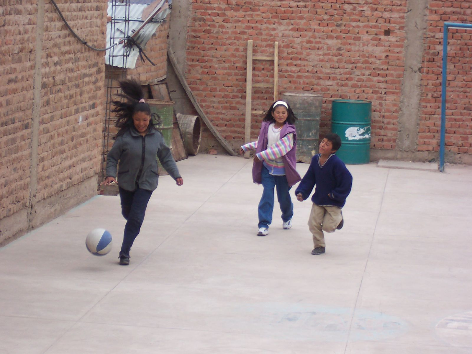 Bolivian children playing football (soccer).